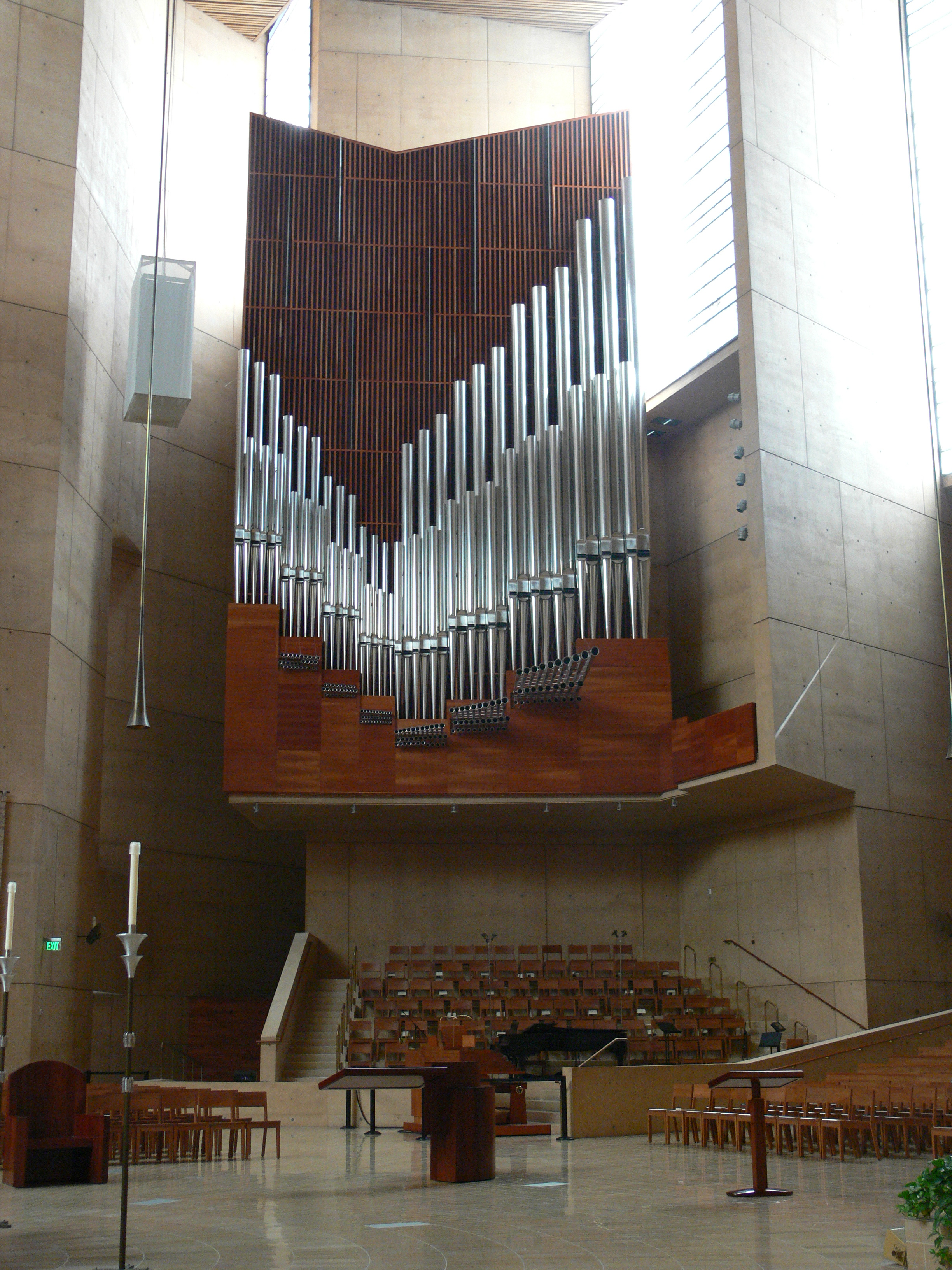 Roman Catholic Cathedral of Our Lady of the Angels, Los Angeles, California Cathedral Organ